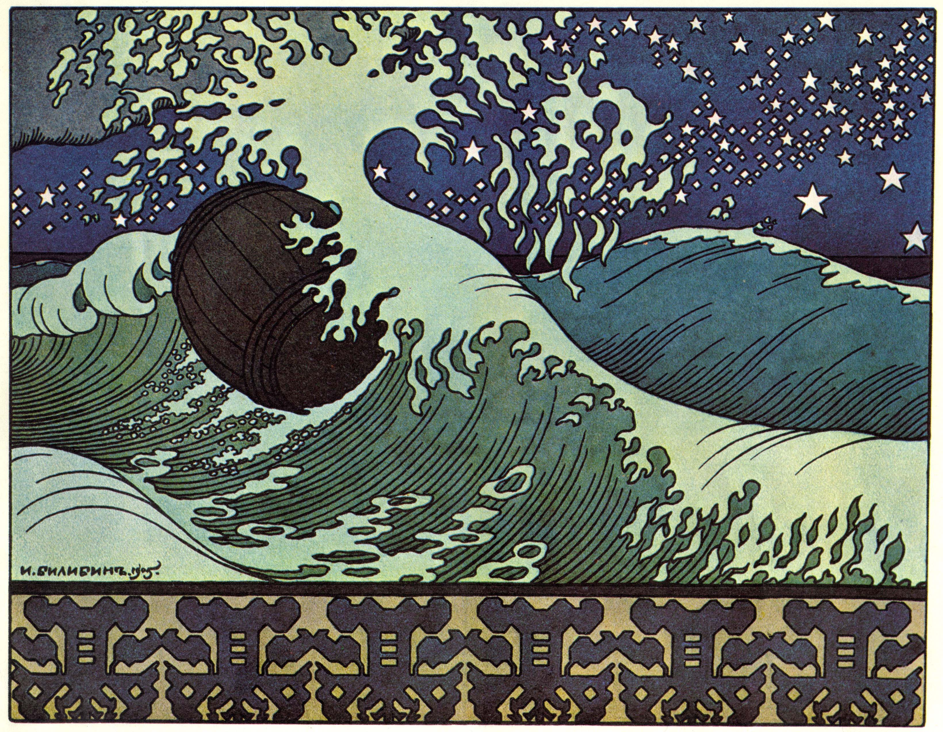 Illustration to "The Tale of tsar Saltan".